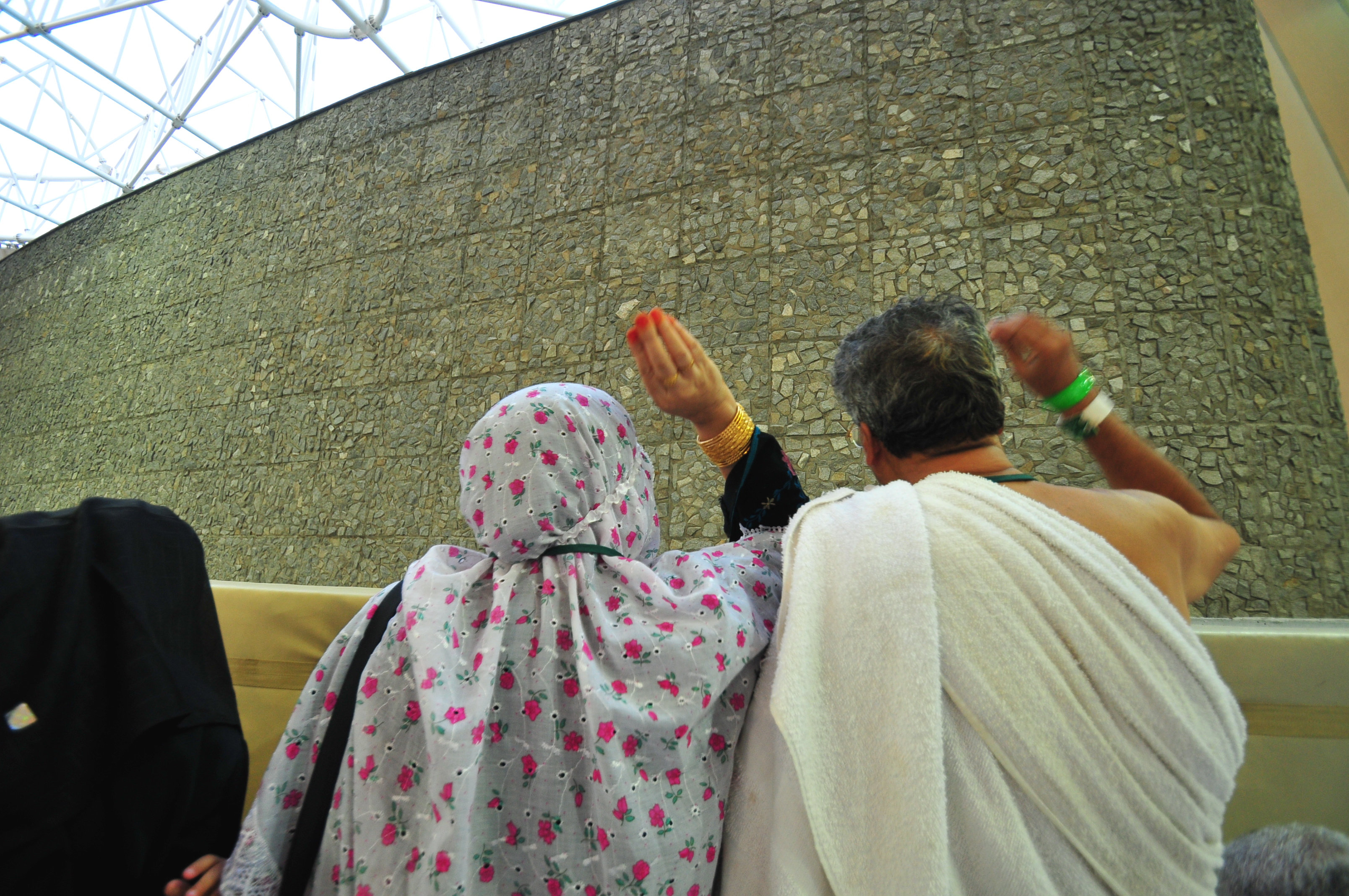 Stoning the Devil in Mina